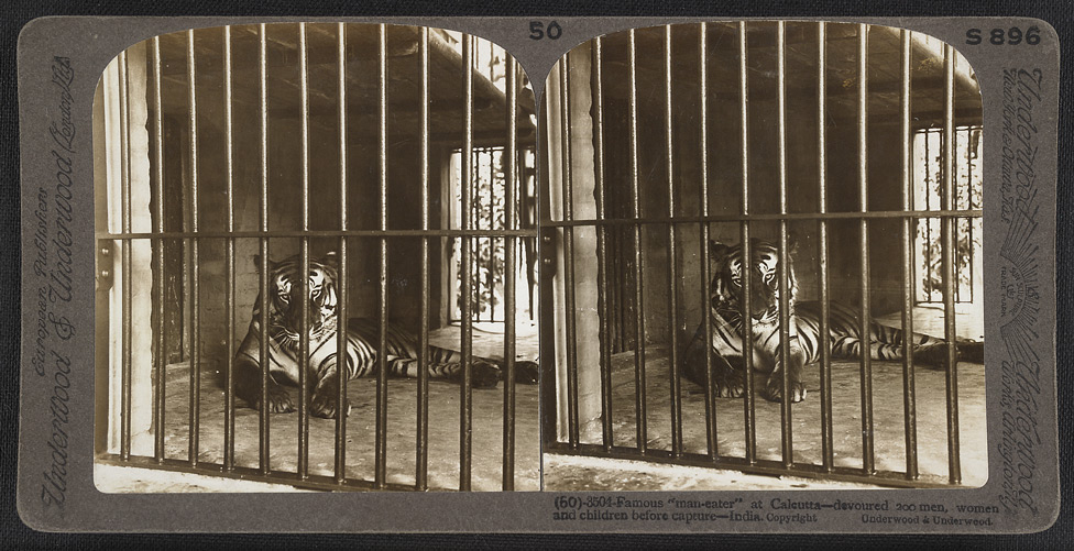 Stereographic image titled, "Famous 'man-eater' at Calcutta - devoured 200 men, women and children before capture - India"